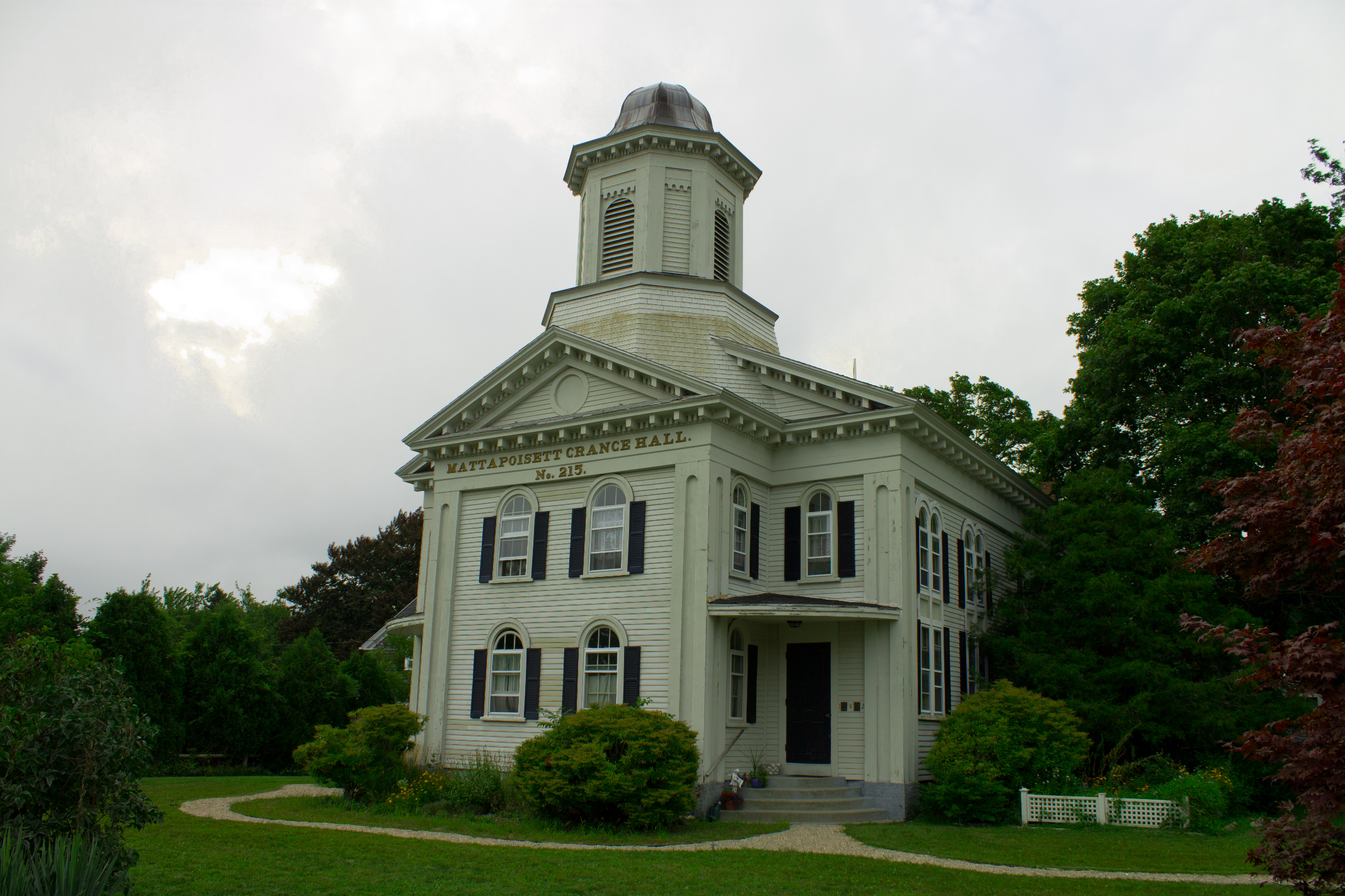 A picture of the Third Meeting House (Old Grange Hall) in Mattapoisett, Massachusetts. It is on the National Register of Historic Places.